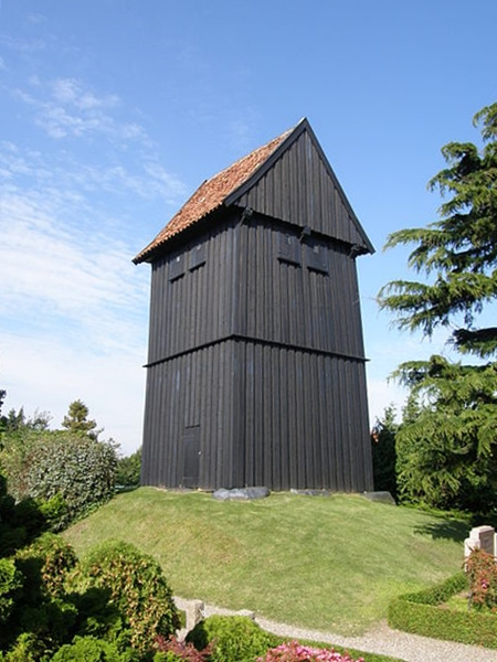 Wooden bell tower of Birket Church, Lolland. Built c. 1350, it is considered to be the best preserved in Denmark's country churches.